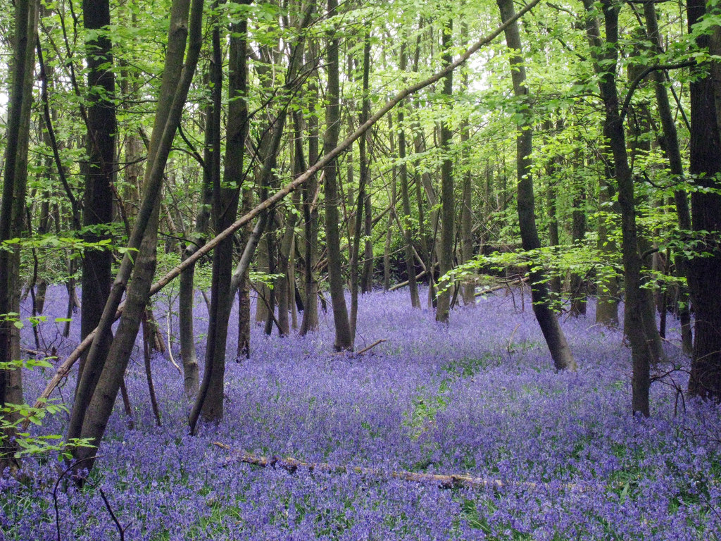 A rich bed of bluebells (Hyacinthoides non-scripta), Little Chittenden Wood, near to Four Elms, Kent, Great Britain.